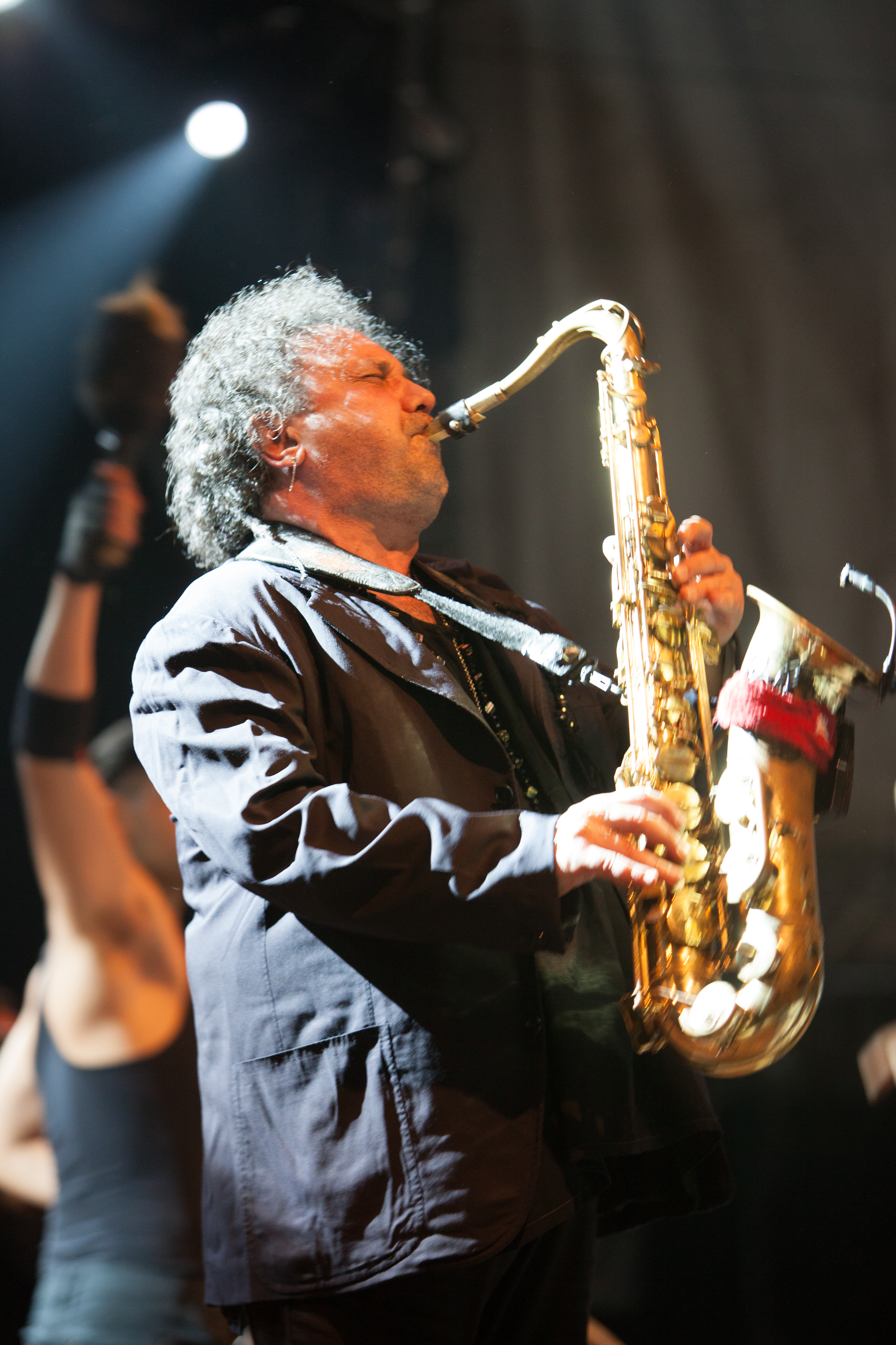 Enzo Avitabile at the TFF Rudolstadt 2013